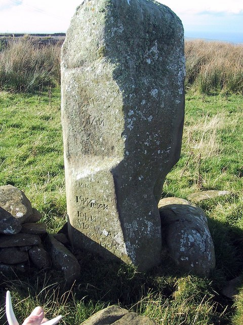 Taxing Stone, Little Laight Hill The Taxing Stone, is according to believed to be a Toll point and standing stone which marks the burial-place of Alpin, King of Dalriada, killed in 741 in Glenapp.